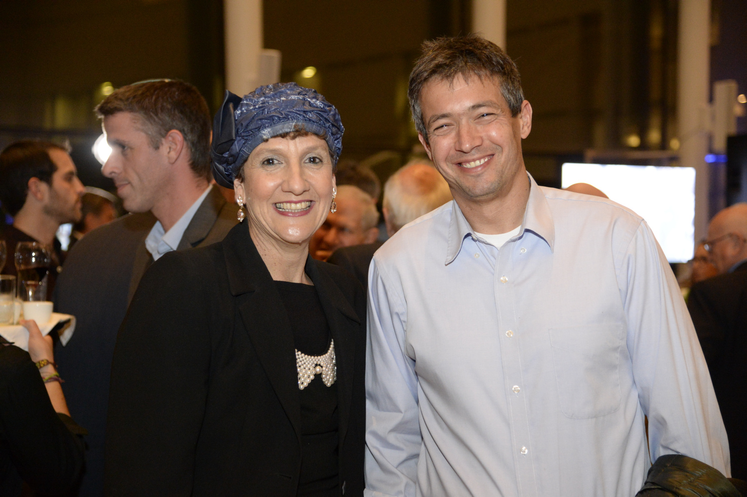 Ambassador's farewell party